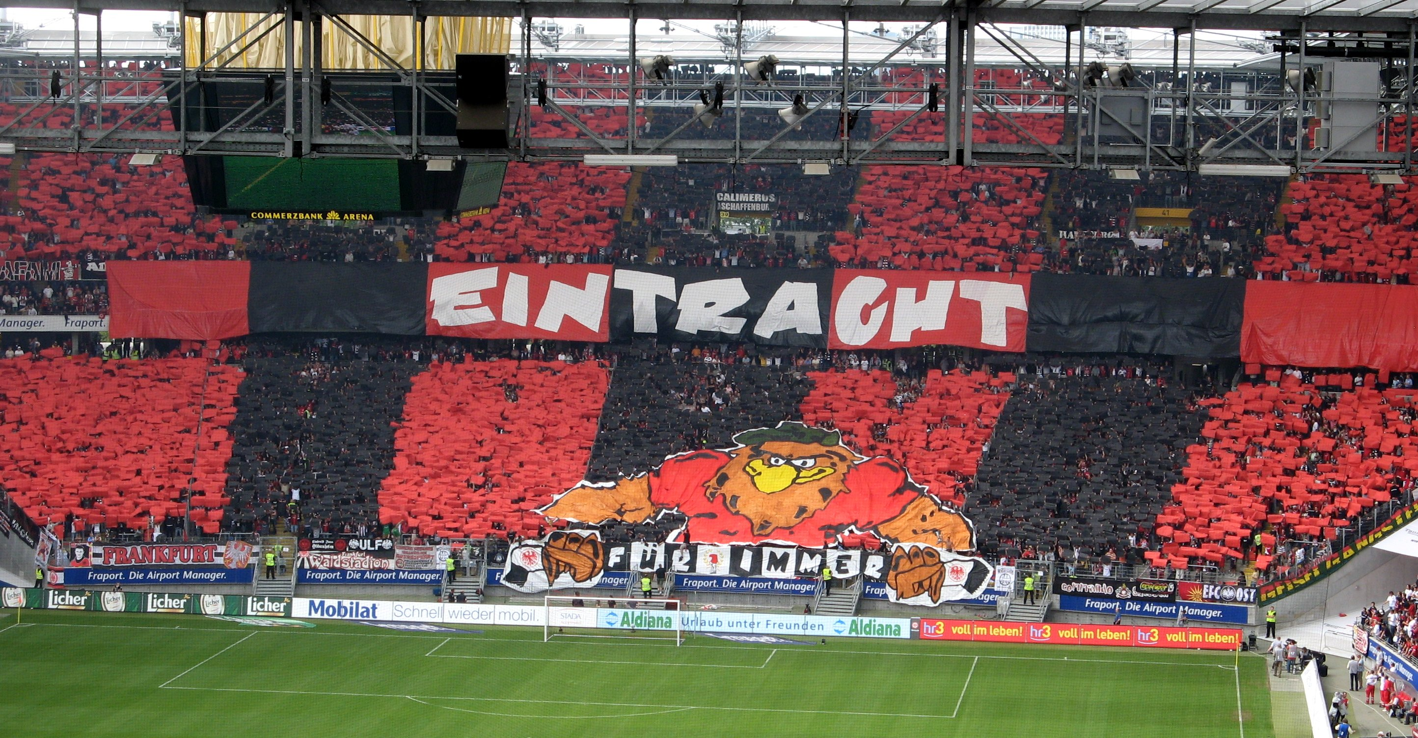 Westkurve at the firts league game 2007/2008 against Hertha BSC Berlin